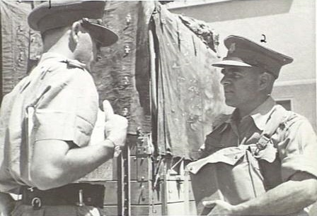 Colonel (later Lieutenant General Sir) Henry Wells (right) converses with Captain S. Walsh during a respirator and gas drill at the 9th Australian Division's Headquarters in Tripoli, Syria during the Second World War.